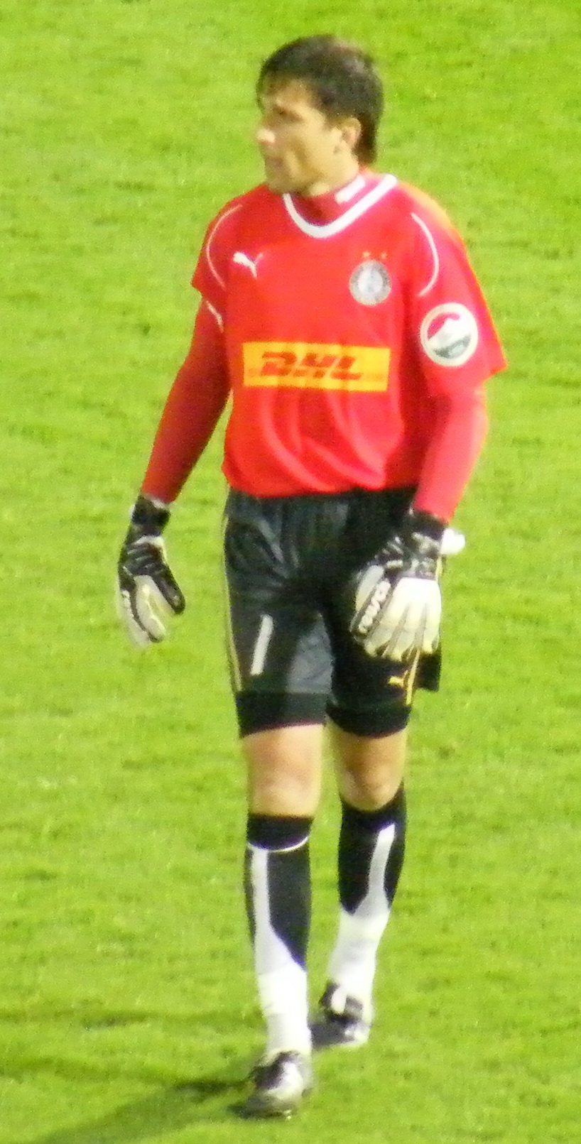 Szabolcs Balajcza Hungarian association football player.